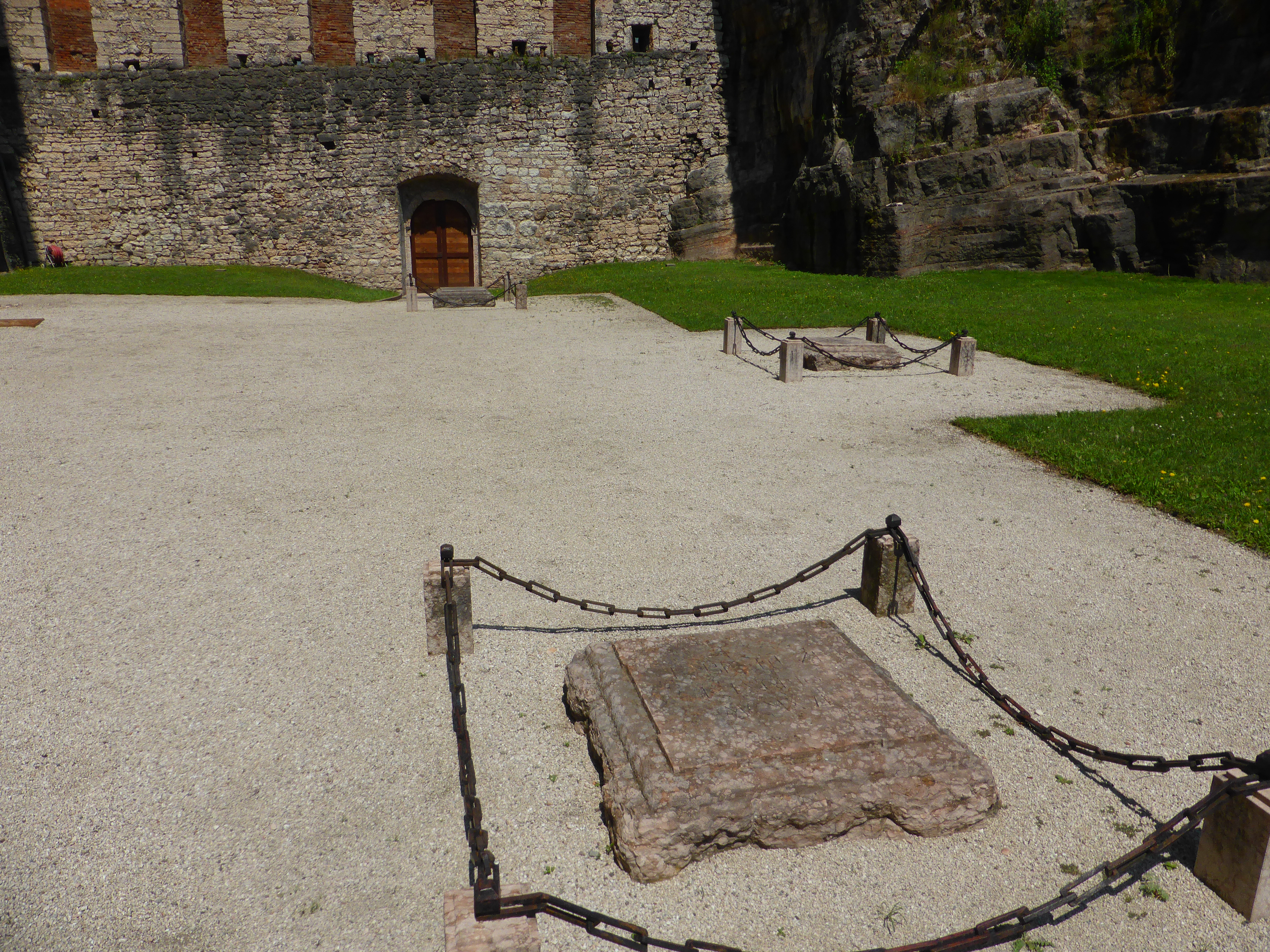 Three memorials in Buonconsiglio Castle in Trento (Italy). Theyremind us the execution of three irredentist (Cesare Battisti, Fabio Filzi and Damiano Chiesa).